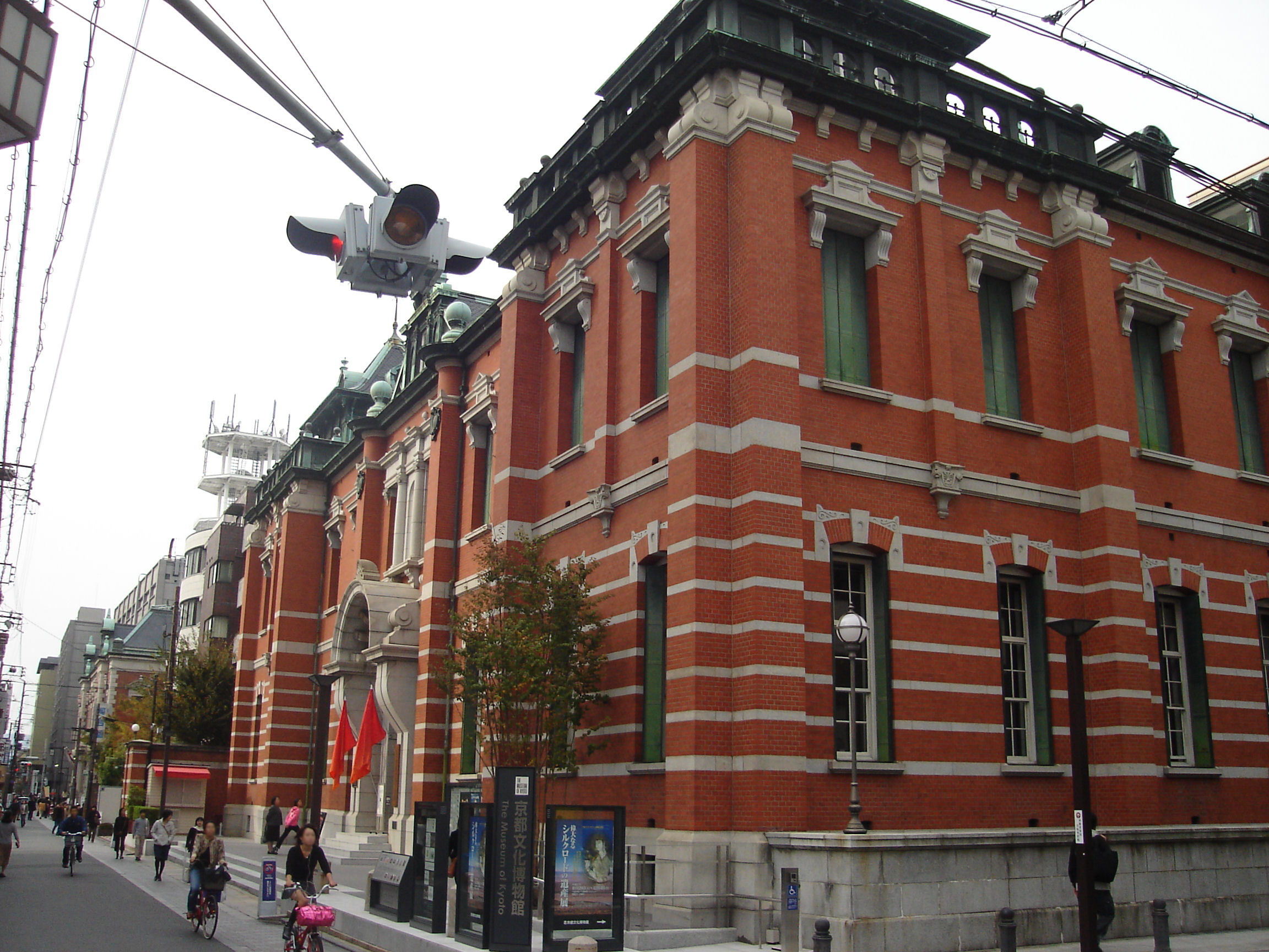 Museum of Kyoto annex